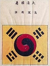 Flag of Joseon